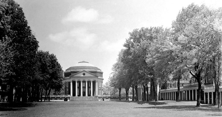 The Lawn and The Rotunda at the University of Virginia